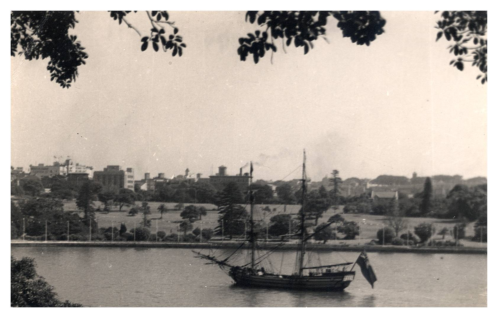 Image 25000069 - A replica of the First Fleet ship 'HMS Supply', part of the 1938 First Fleet re-enactment in Sydney Harbour.